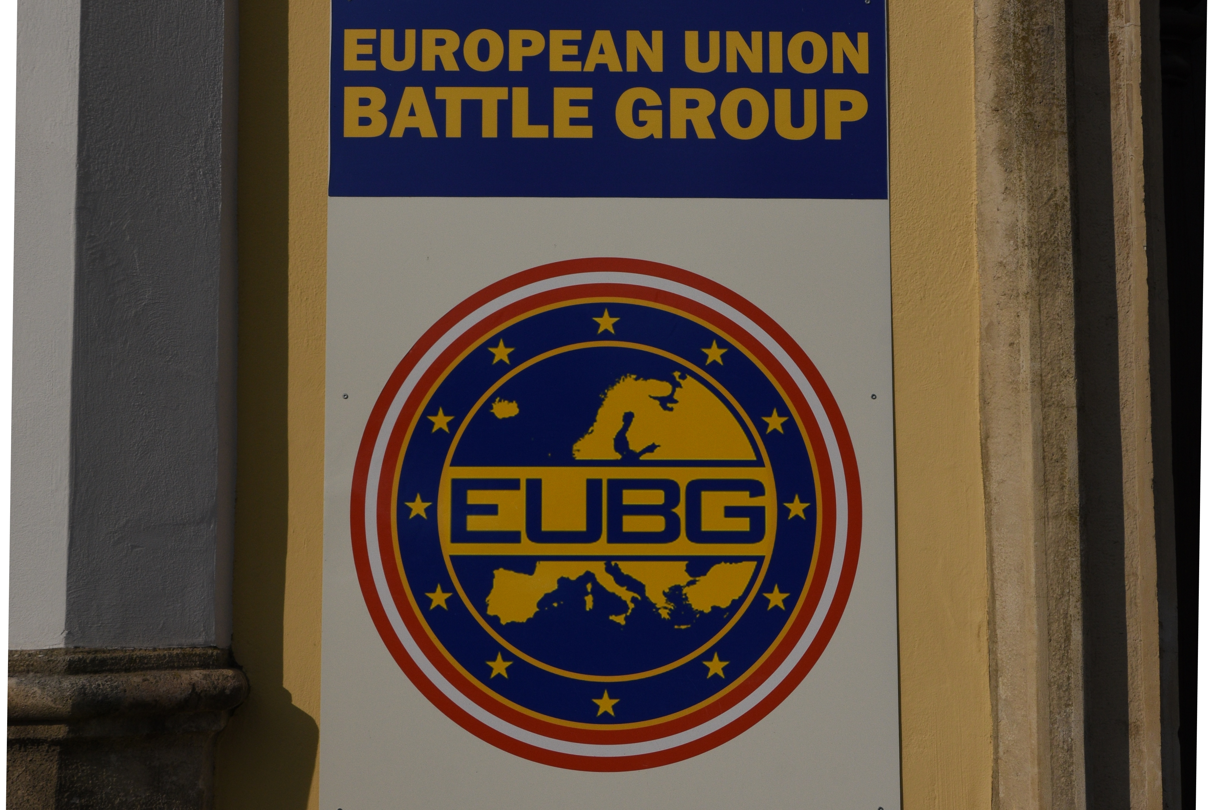 European Union Battle Group EUPG Austria Straß